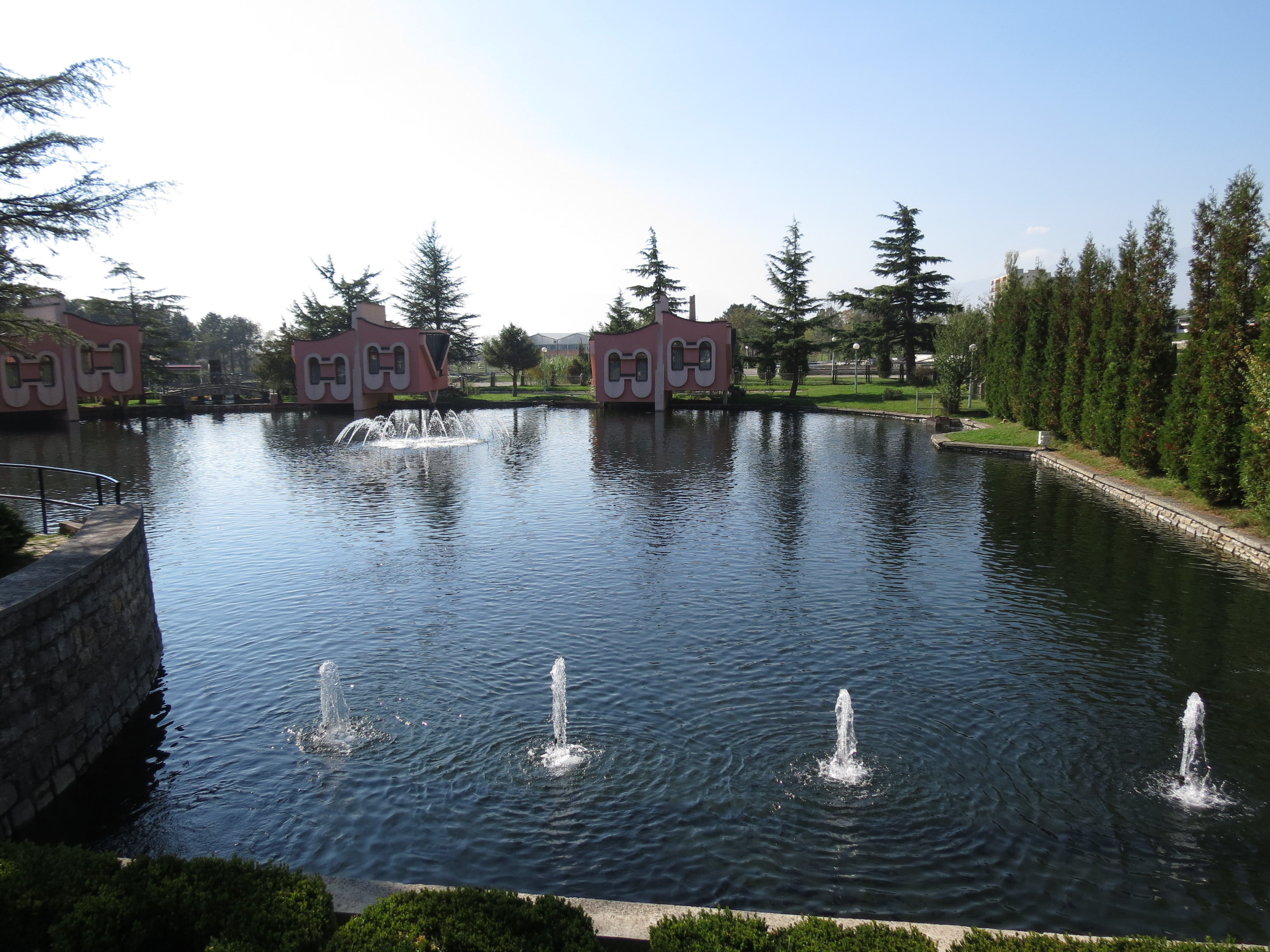 Hotel, Restaurant and fish farm "Trofta" in Istog, Kosovo.